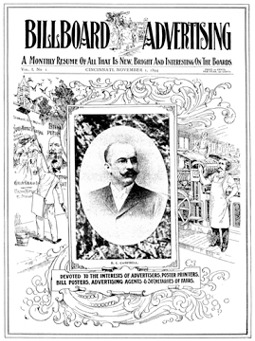 Billboard first issue 1894